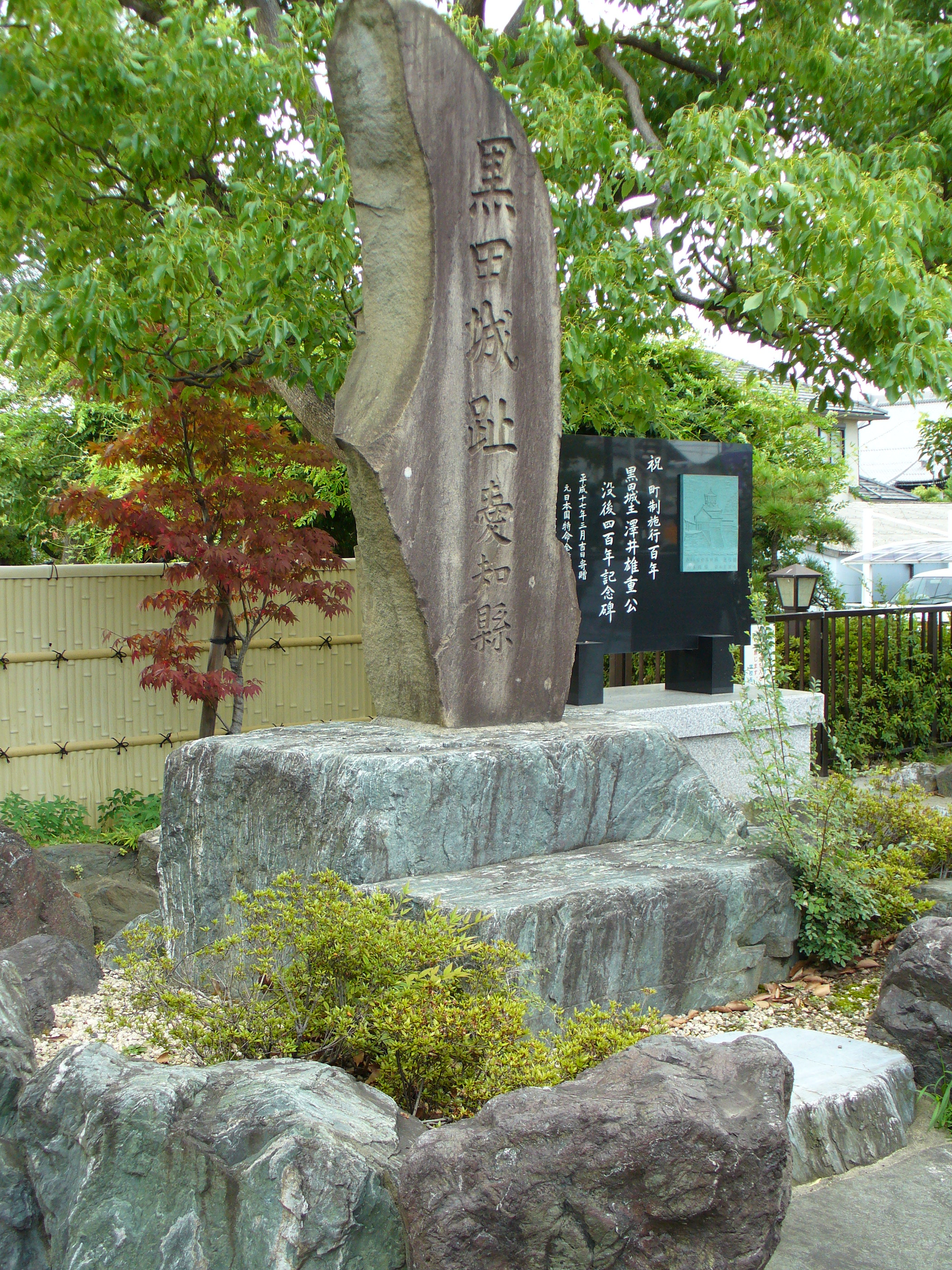 The Ruins of Kuroda Castle, Ichinomiya-city, Aichi, Japan